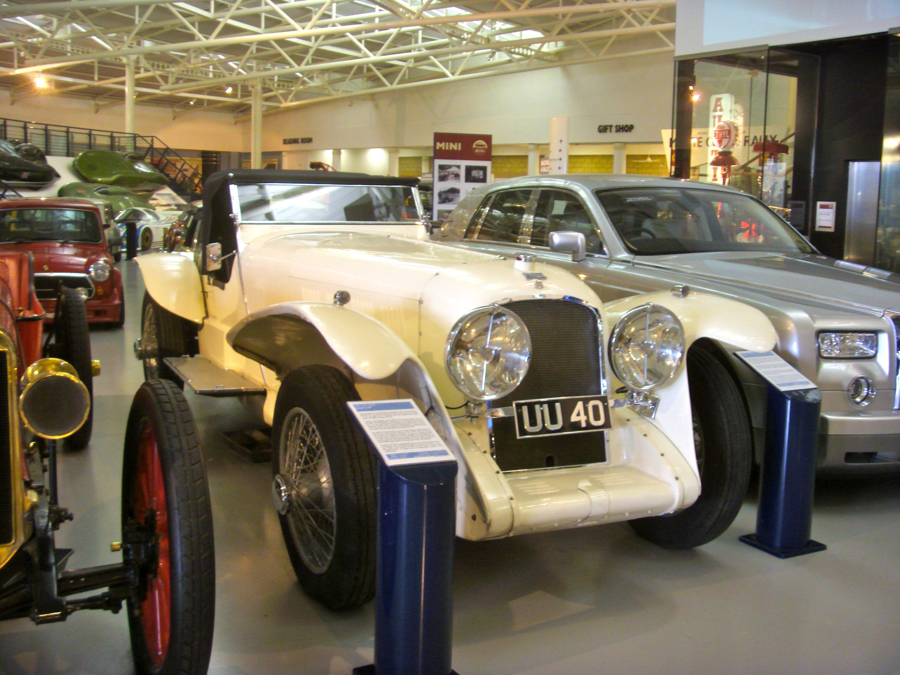 A fabulous machine that is absolutely huge. Seen by itself, it wouldn't look that big, but look at the new Phantom next to it!